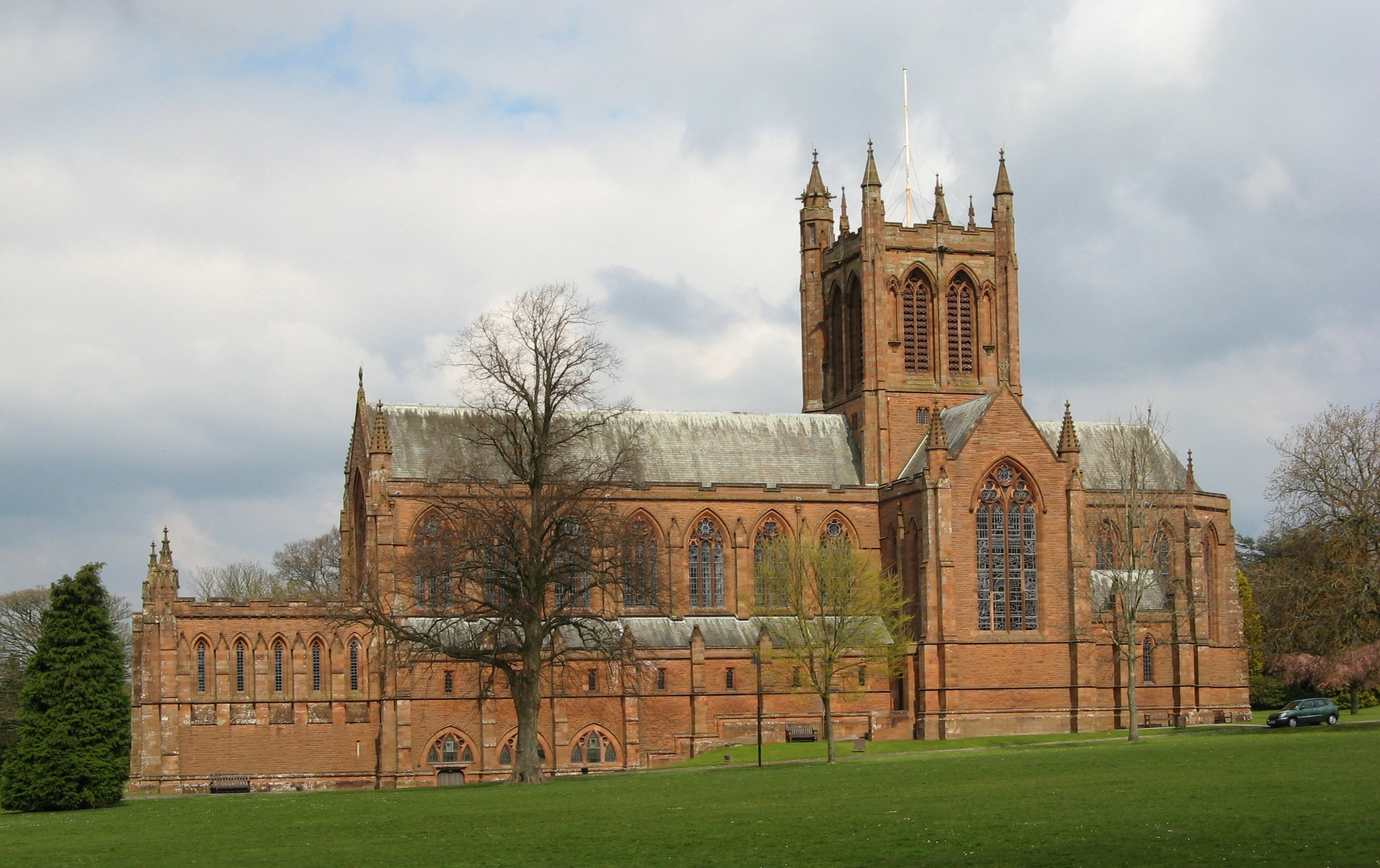 Church on the Crichton Campus, Dumfries, Scotland